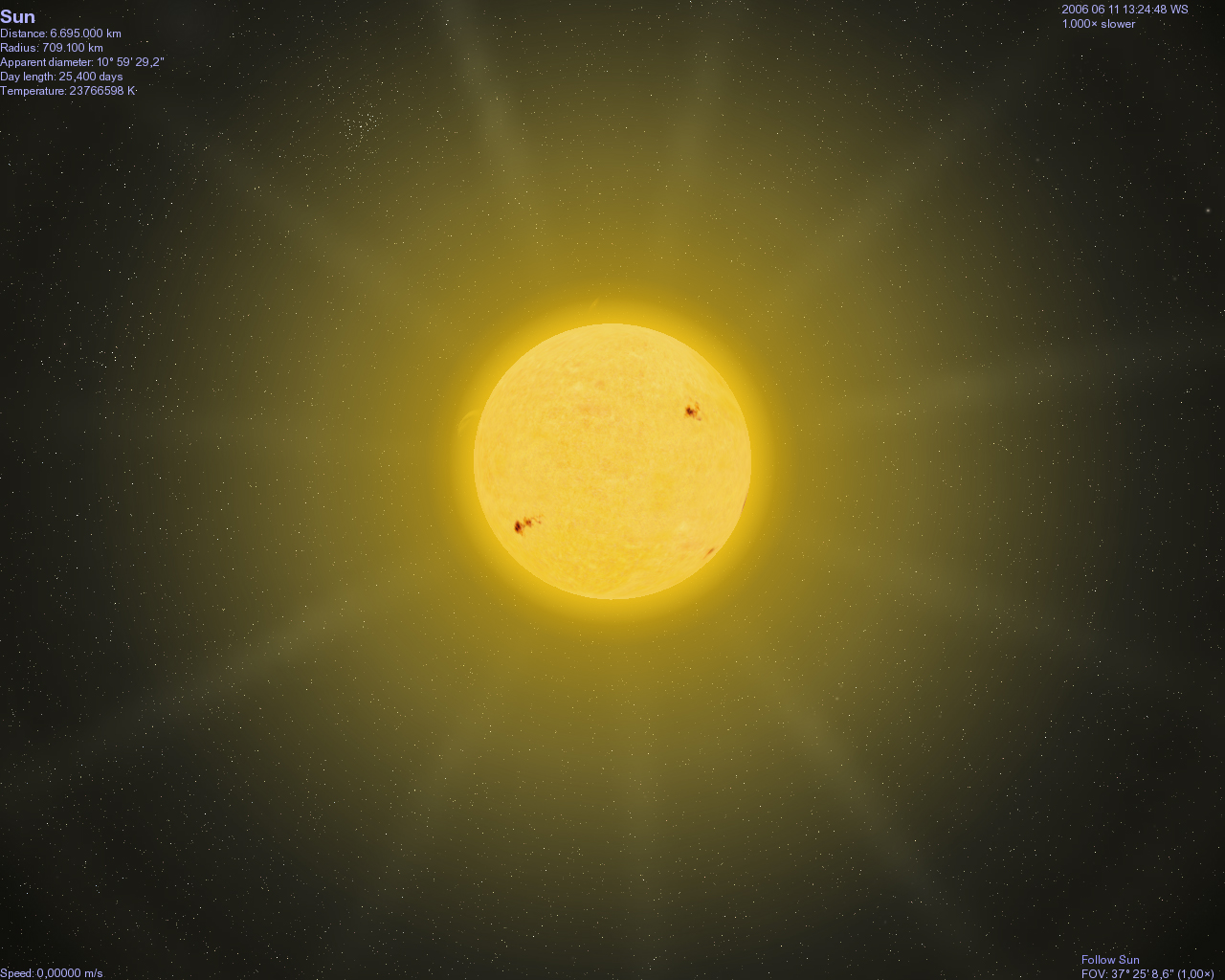 a big yellow think